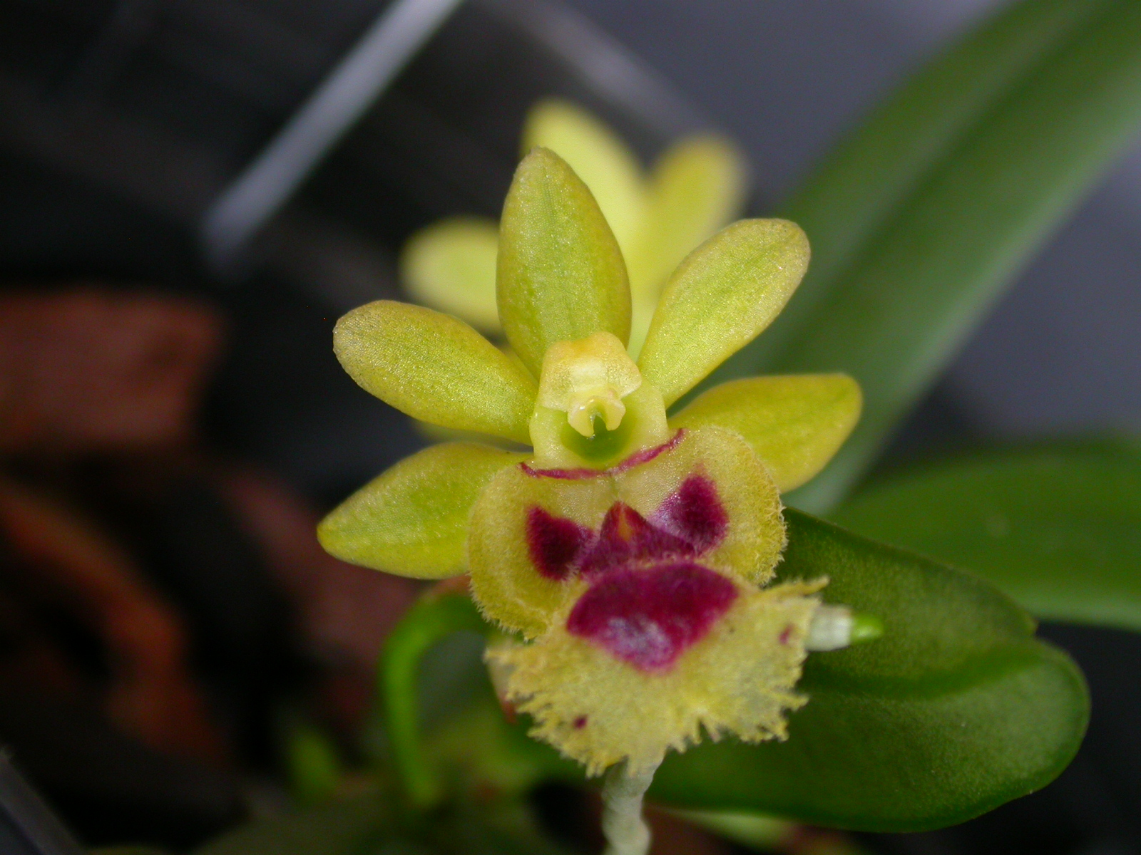 Haraella retrocalla